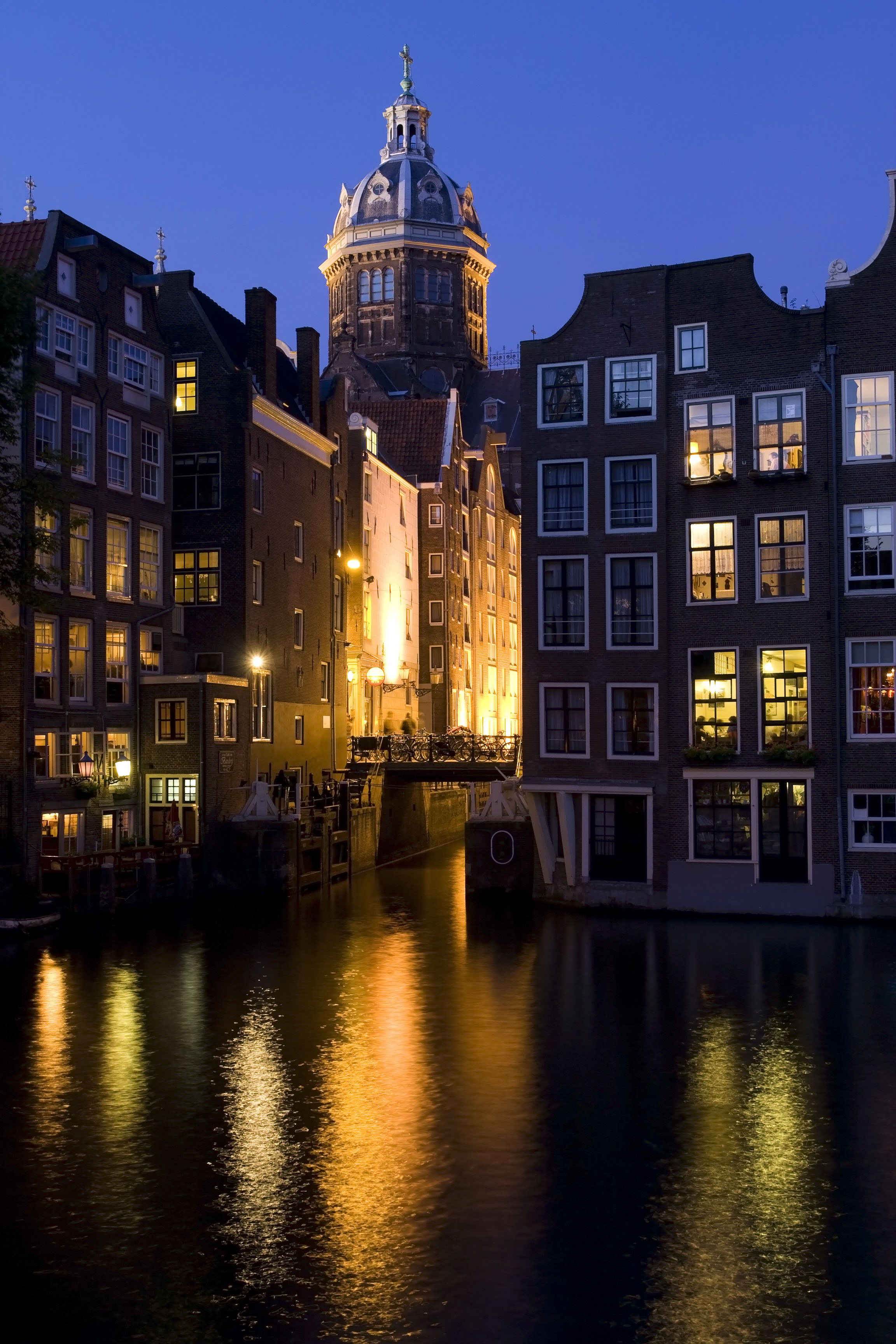 A view of the Oudezijds Kolk in Amsterdam, The Netherlands with the dome of the St. Nicolas Church rising out above the merchant houses lining this canal at twilight.